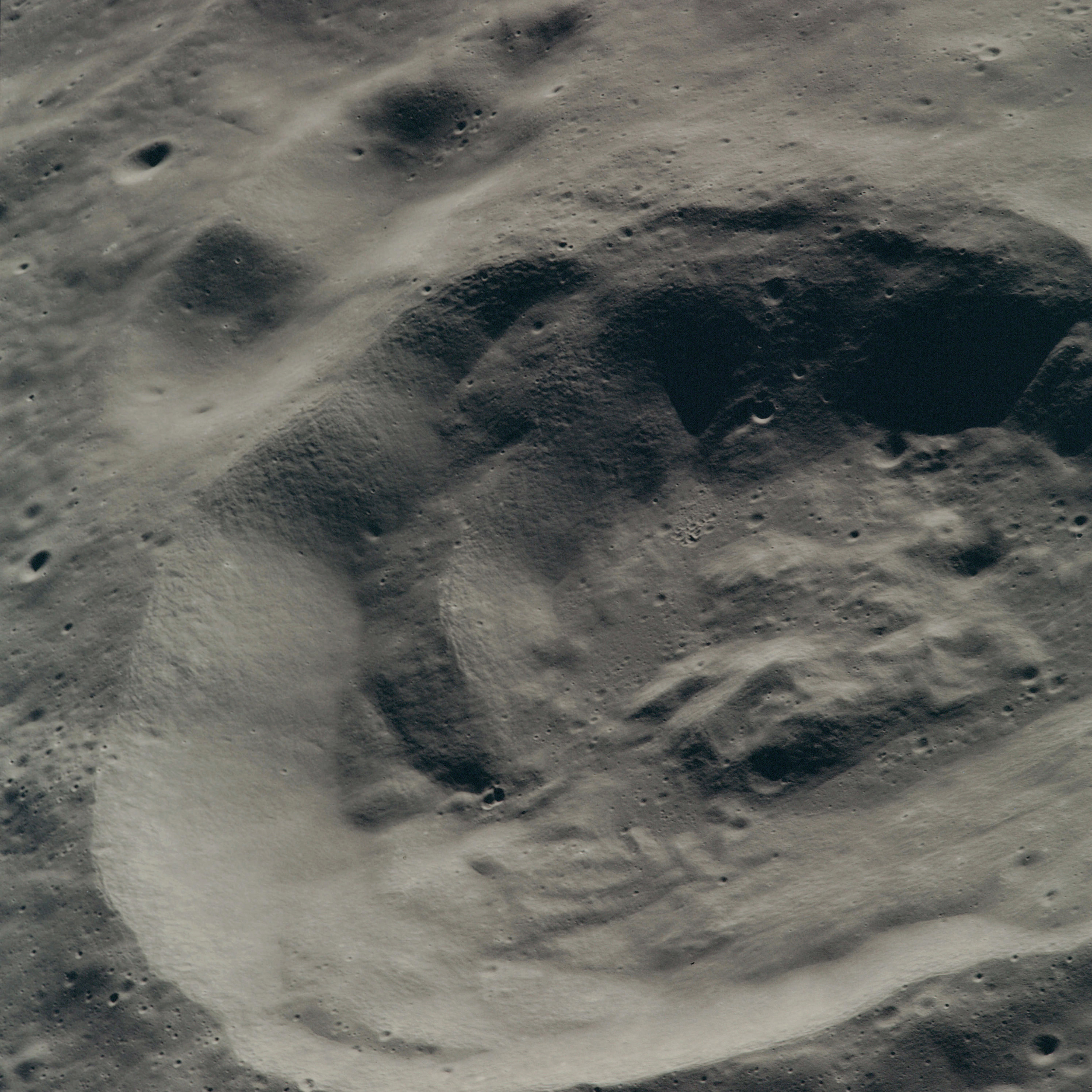 Oblique view of Amici T crater (west of Amici crater), on the far side of the moon.